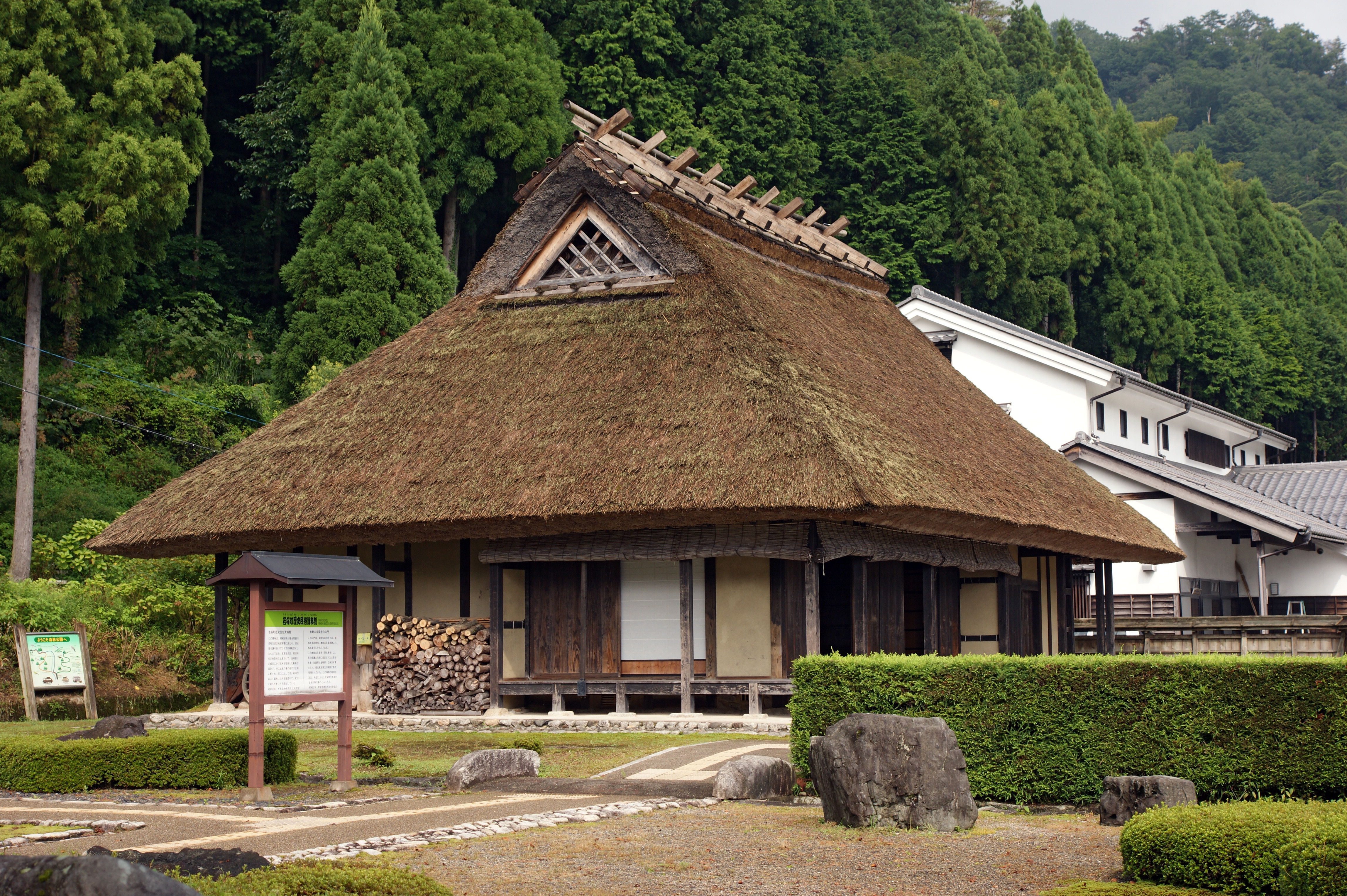 Wakasa kyodobunka-no-sato in Wakasa, Tottori prefecture, Japan